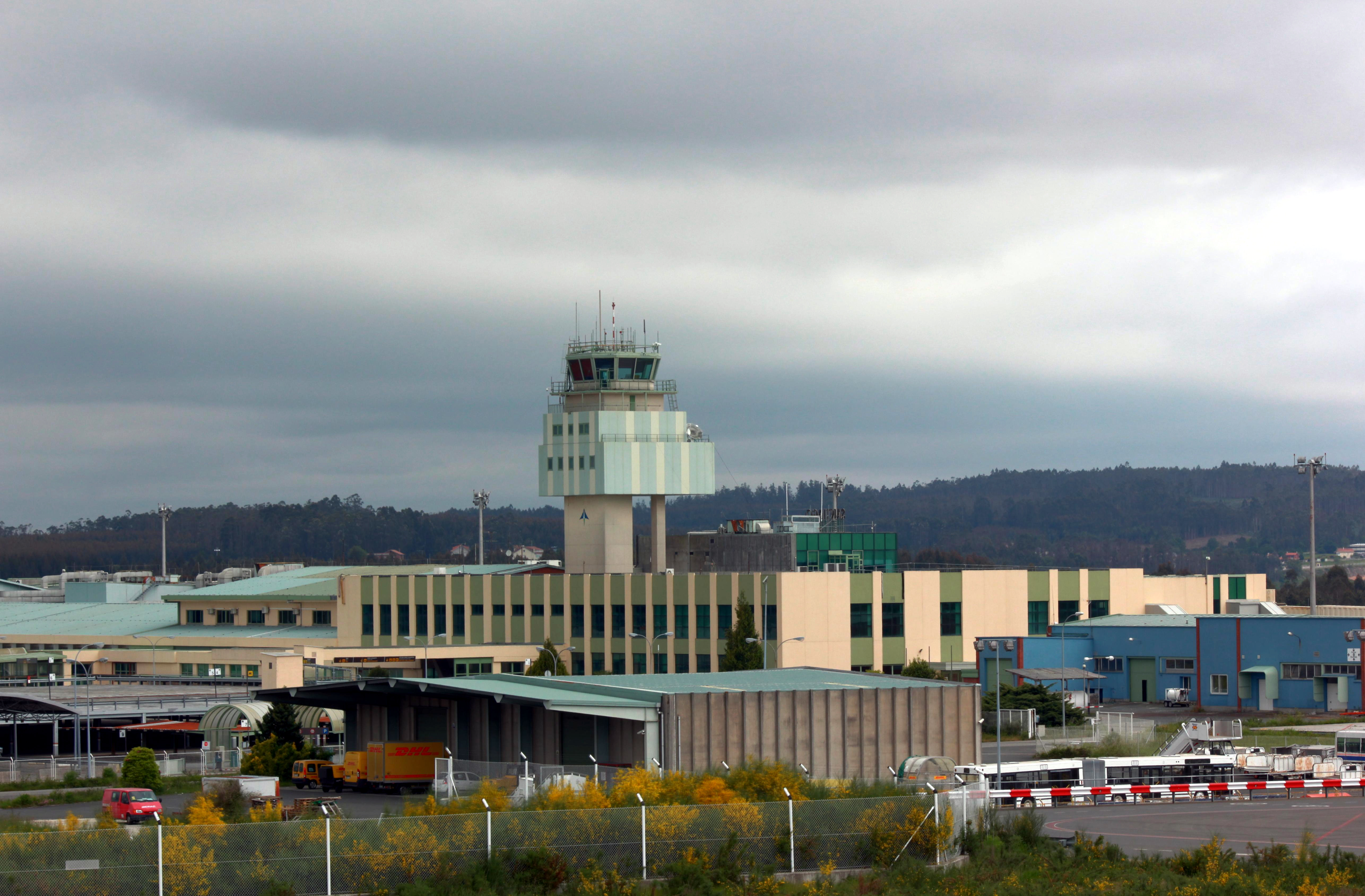 Former control tower of the Lavacolla airport (Santiago de Compostela), Galicia, Spain.